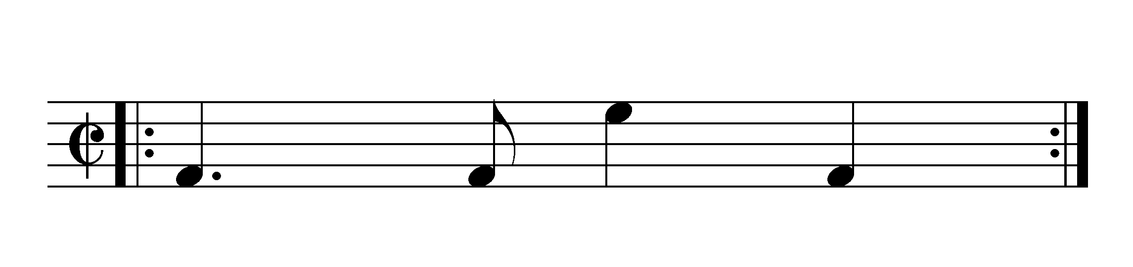 Habanera rhythm shown as a combination of tresillo and the backbeat. Written in 2/2.